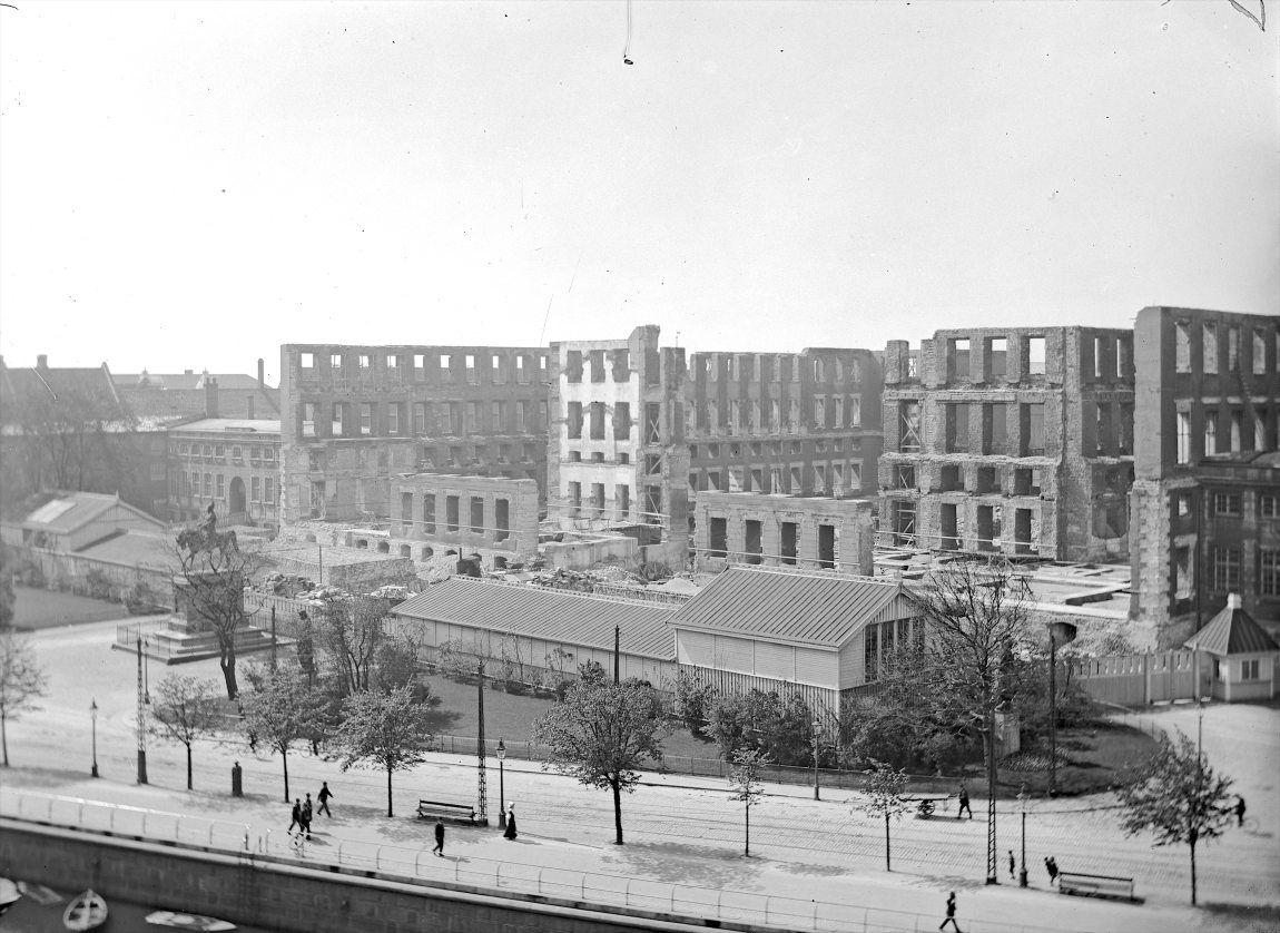 Christiansborg Slotsplads with the remains of the second Christiansborg in Copenhagen, Denmark